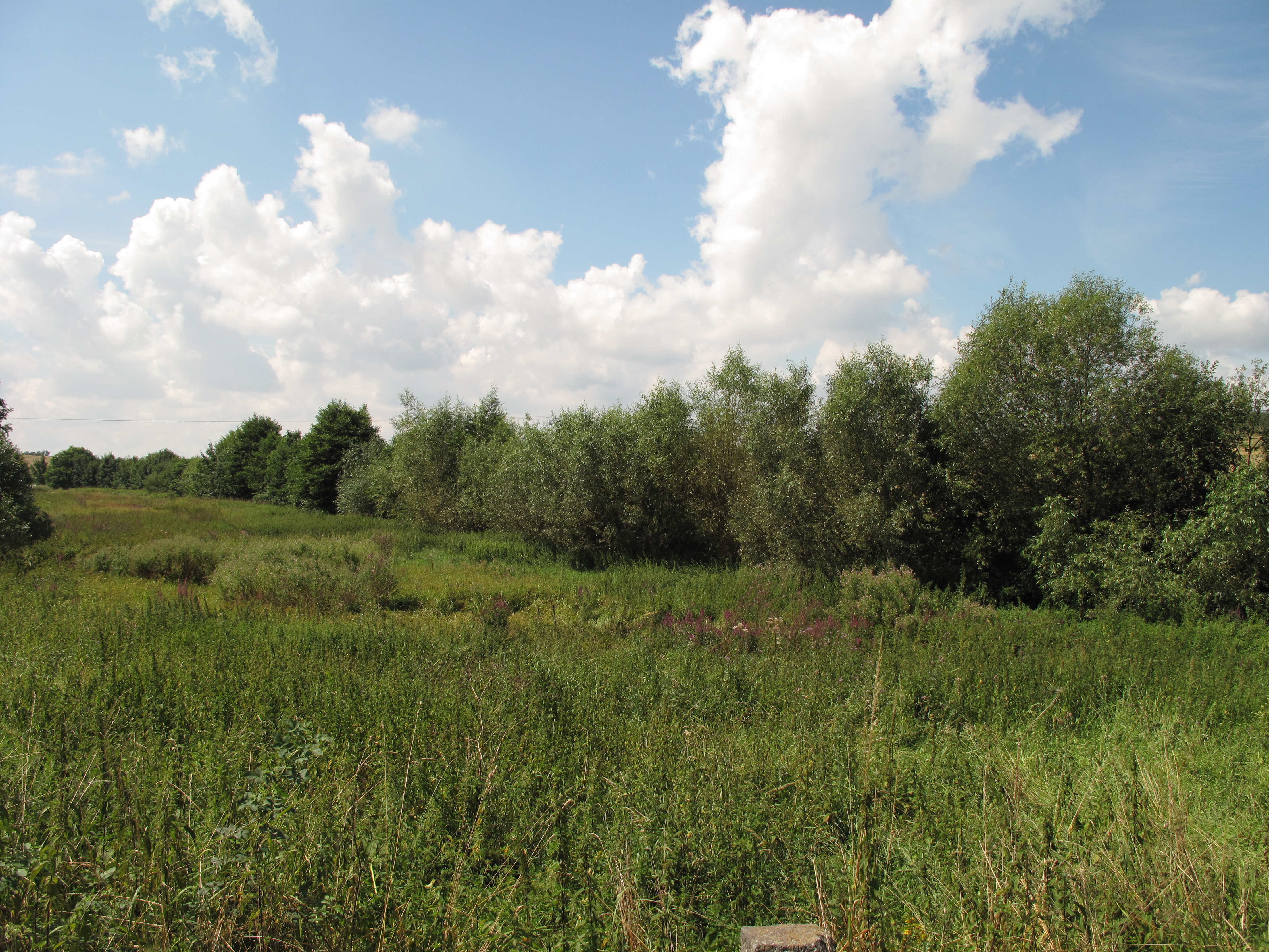 This photograph was taken within the scope of the second year of the 'Czech Municipalities Photographs' grant.